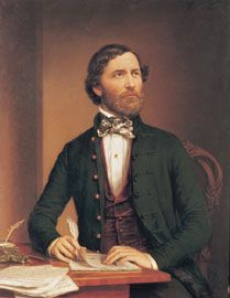 An image of Béni Egressy